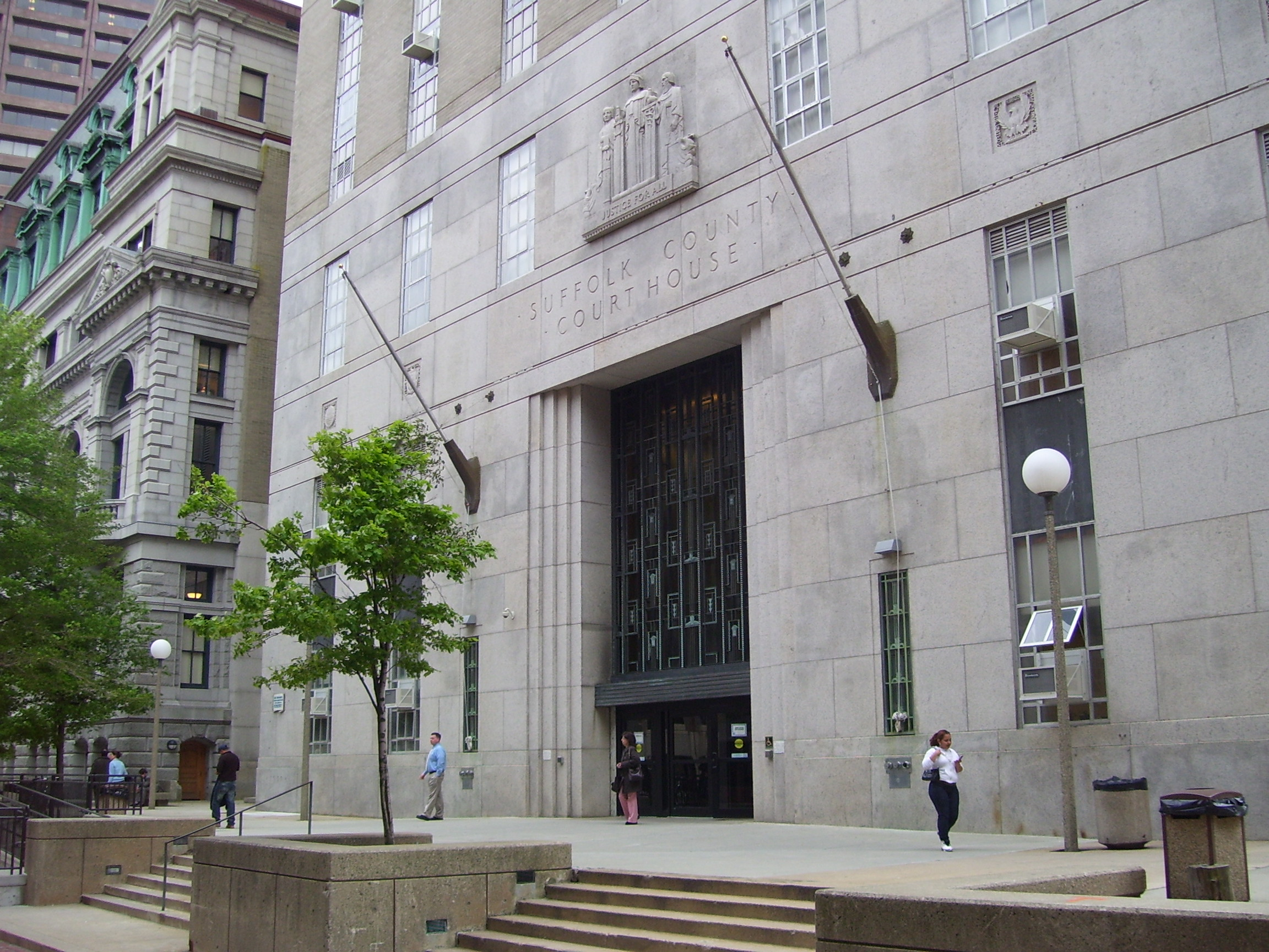 My 2008 photo of the Suffolk County Courthouse in Boston, MA, next to the SJC at Pemberton Square.